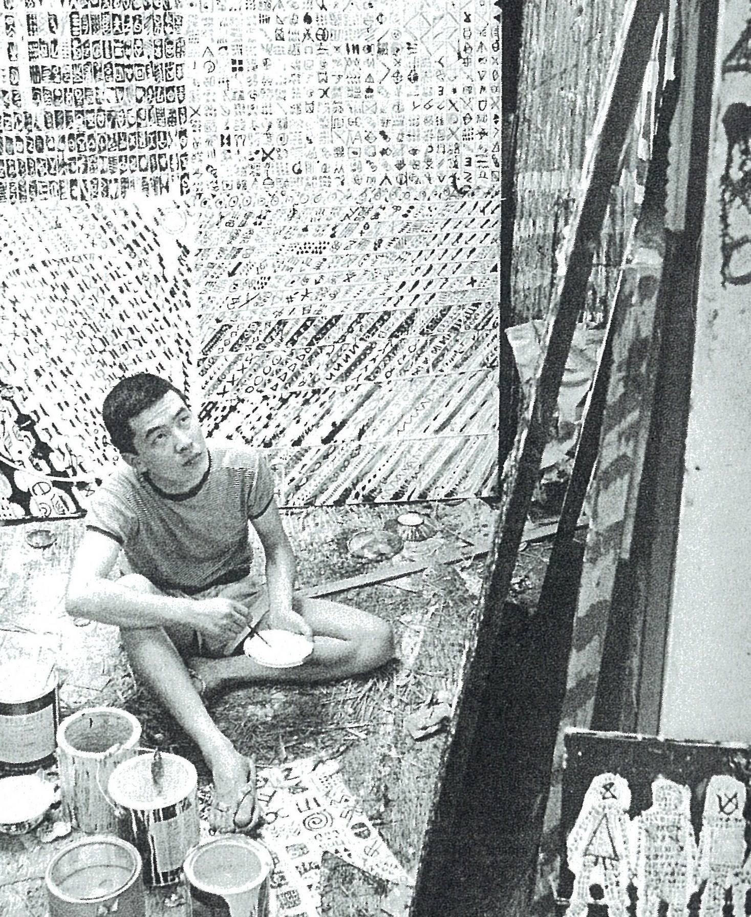 Shuji Mukai